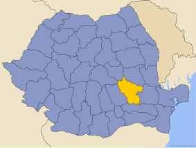 Location of Buzău County in Romania.